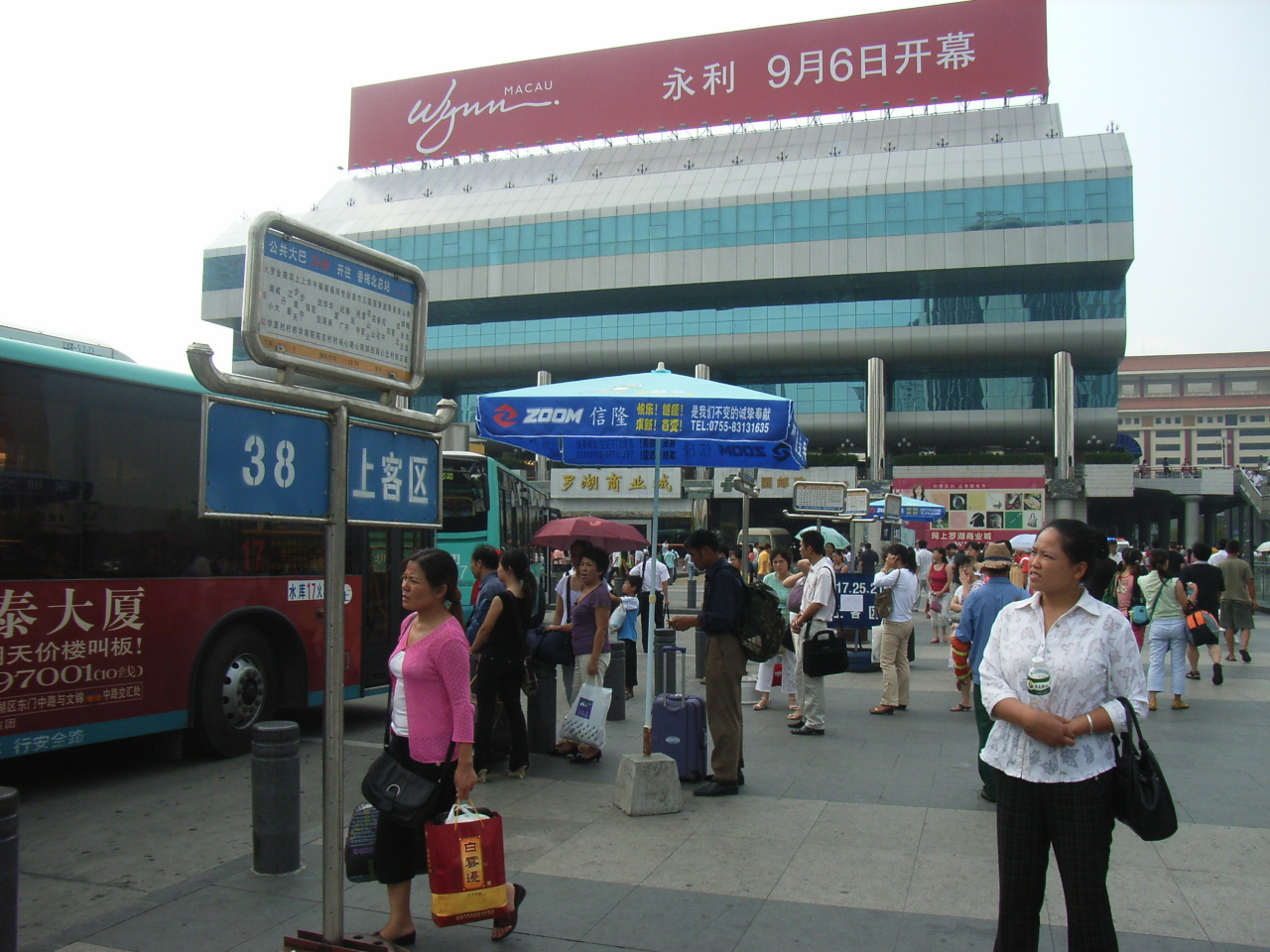 深圳地鐵 沿線各站風景 Shenzhen, China (Author is SAMZ).